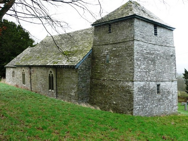 Llanstephan church This is the north side, with a lovely stocky tower on the western end. Interestingly the OS map marks this as "place of worship" rather than "place of worship with tower". It must have been a close call.